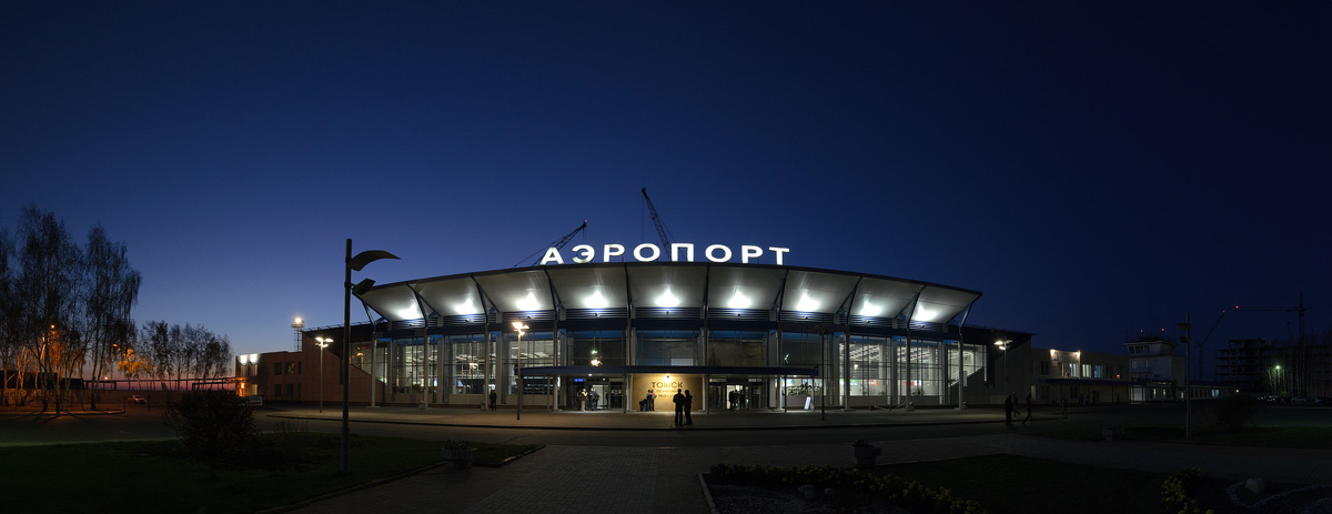 Main building of Bogashevo Airport terminal